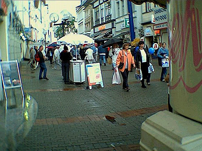 Holm (Flensburg, Juli 2002)